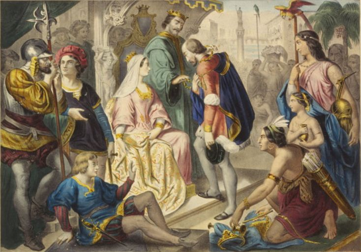 Christopher Columbus being greeted by King Ferdinand and Queen Isabella on his return to Spain.